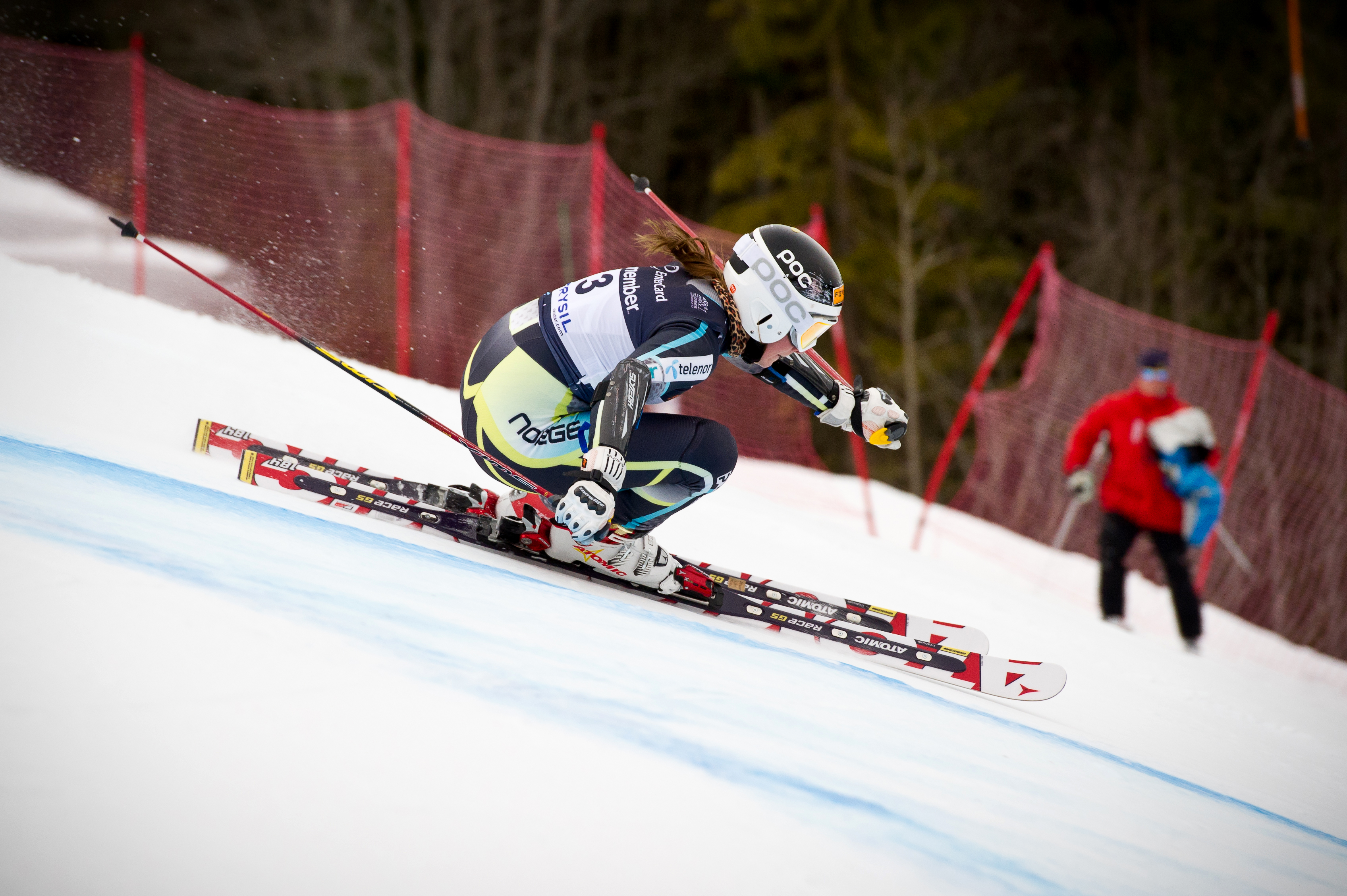 No. 1 and Norwegian champion Lotte Smiseth Sejersted competes in the women's giant slalom event at Trysil during the 2011 national championships in Norway, getting airborne. photo © Ola Matsson